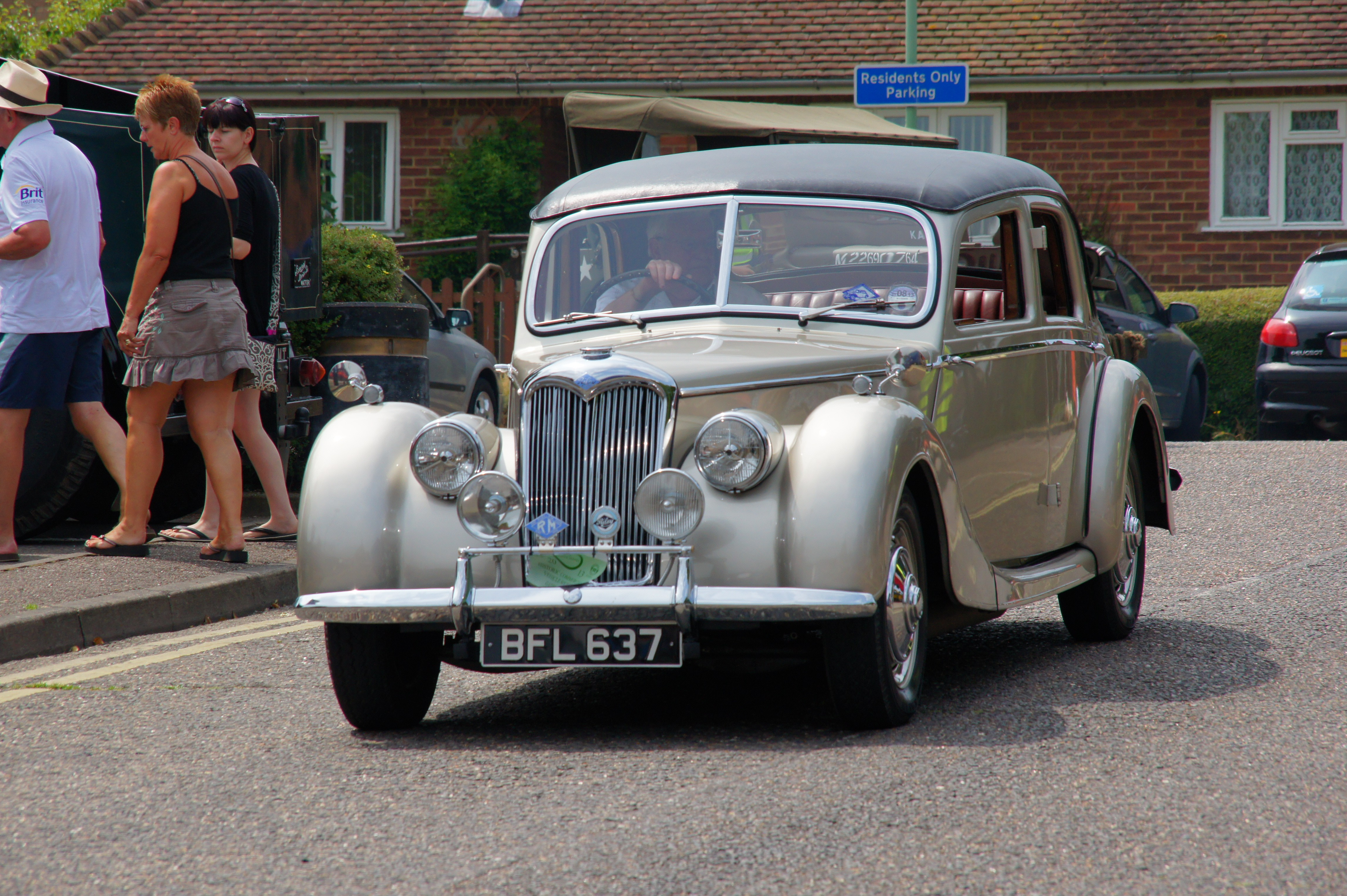 BFL637 140713 CPS Riley 2½-litre RMF saloon (DVLA) first registered 16 March 1953, 2443 cc